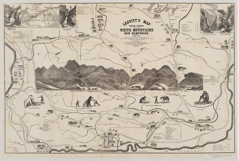 The fourth of artist Franklin Leavitt's maps of the White Mountains, the 1871 map was also the largest. It was engraved on wood by Samuel E. Brown of Boston, printed by A. Williams and Co., and carried a retail price of $1.00. The map has the most realistic depiction of the mountains which make up the Whites of all Leavitt's maps of the range.